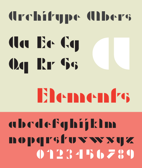 Specimen of the typeface Architype Albers. Jim Hood